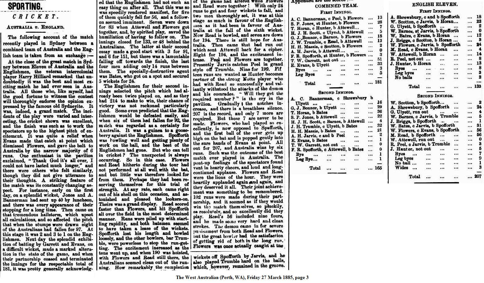 3rd test of the 1885 ashes, from the National Library Australian newspapers digitisation program which are pre-1955 so no copyright: "The service includes newspapers published in each state and territory from the 1800s to the mid-1950s, when copyright applies."